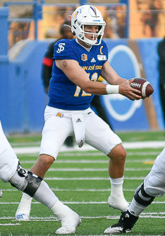 Quarterback Josh Love of San Jose State takes a snap vs San Diego State on 10/19/2019. Photo by Hammer Down Sports